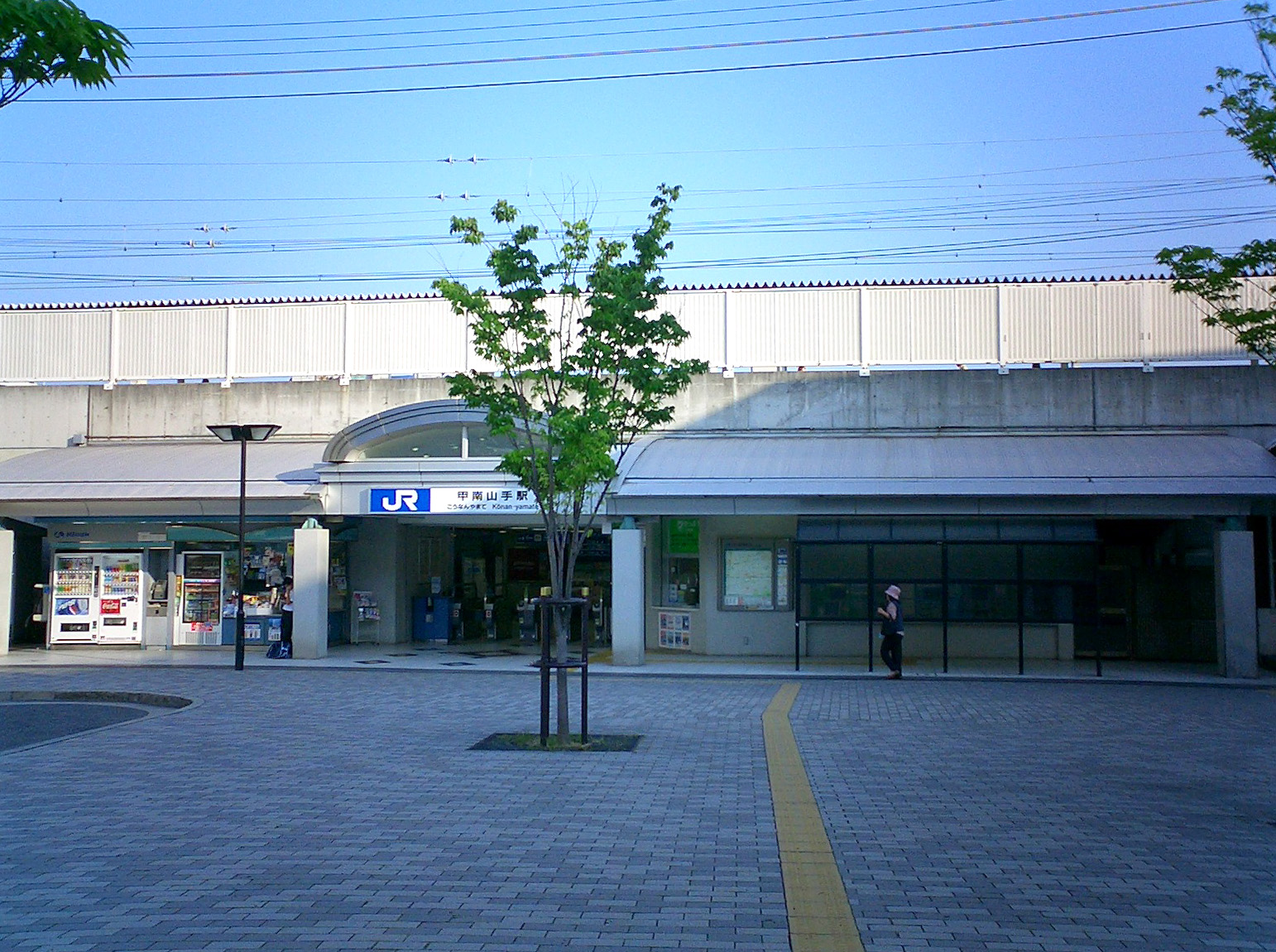 West Japan Railway Tōkaidō Main Line (JR Kōbe Line) Kōnan-Yamate Station Building